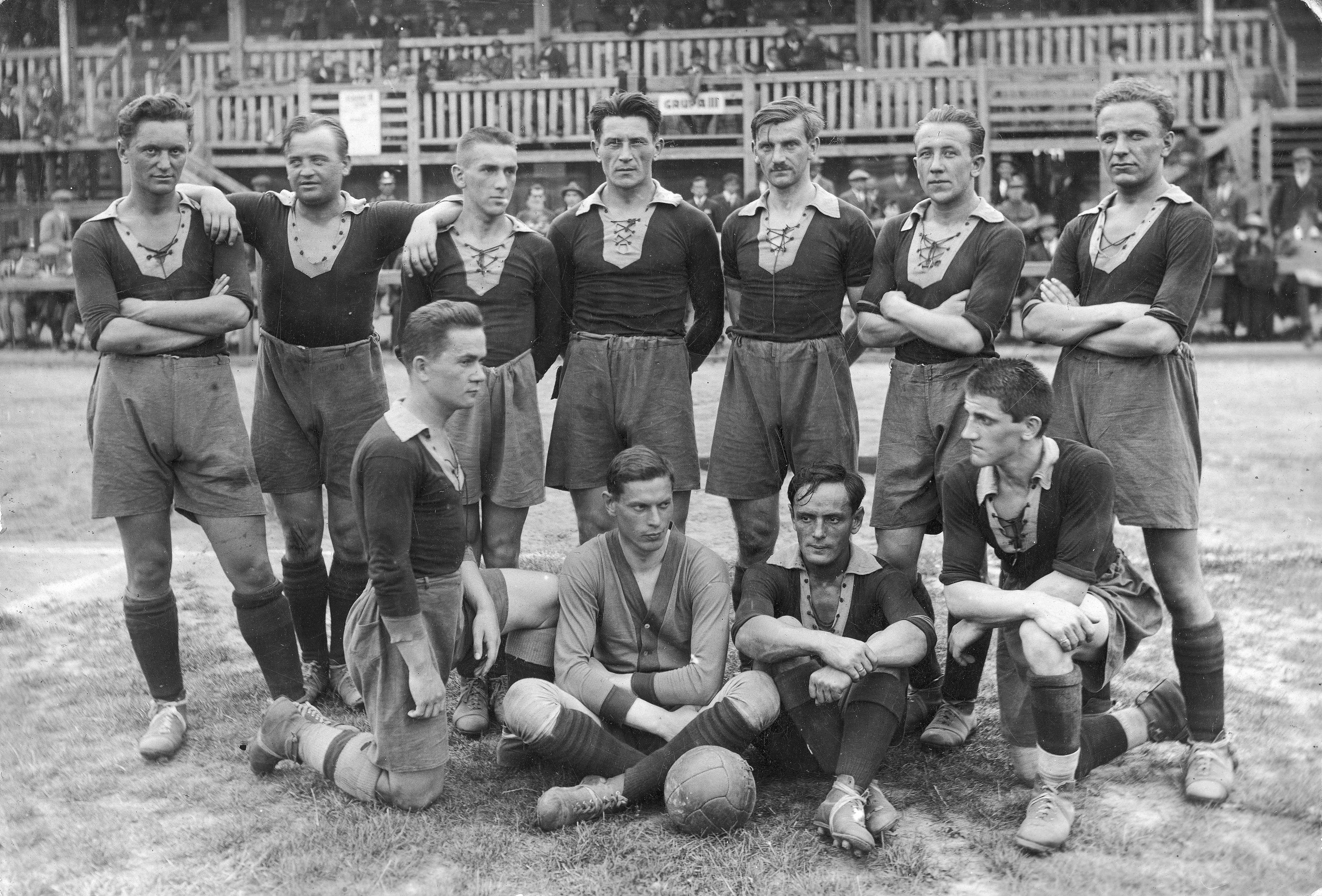 Polish football club Pogoń Lwów (Lviv) in 1926